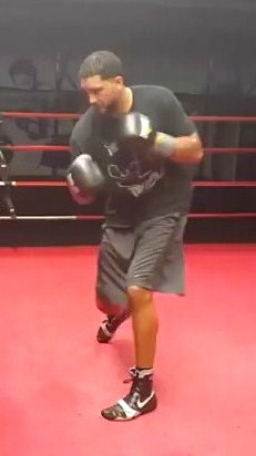 Dominic Breazeale, a gifted heavyweight boxer from the United States.